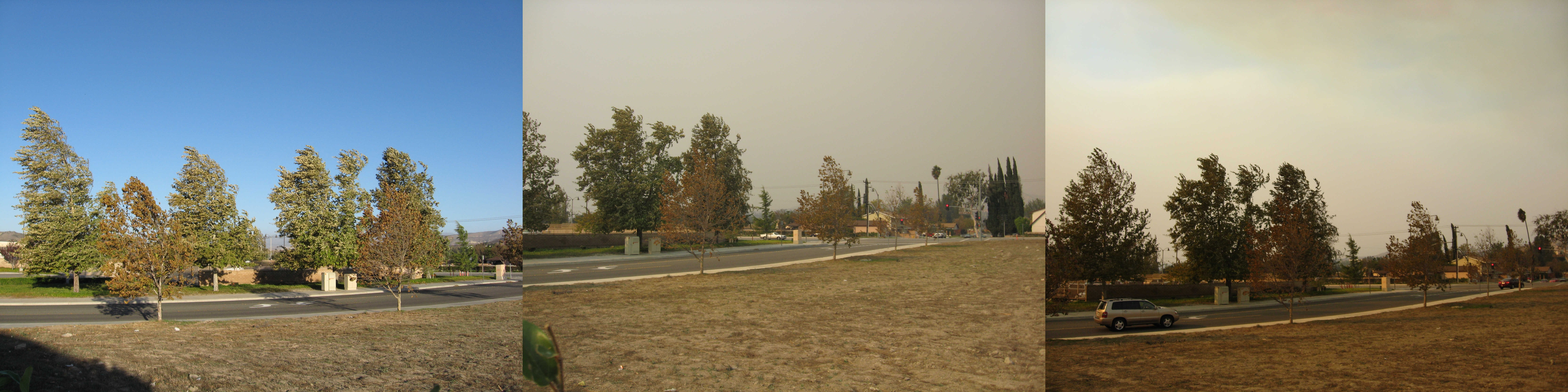 Comparison of the skyline from October 21 (left) and October 22. Taken in Simi Valley, California, during the California wildfires of October 2007. All pictures taken with Canon PowerShot A560. Left—Blue sky with everyday haze. Take note of the Santa Ana winds blowing the trees. Middle—Smoke has reached the vicinity. Winds have calmed briefly. Right—Less smoke than yesterday, but still badly congested. Note the winds.